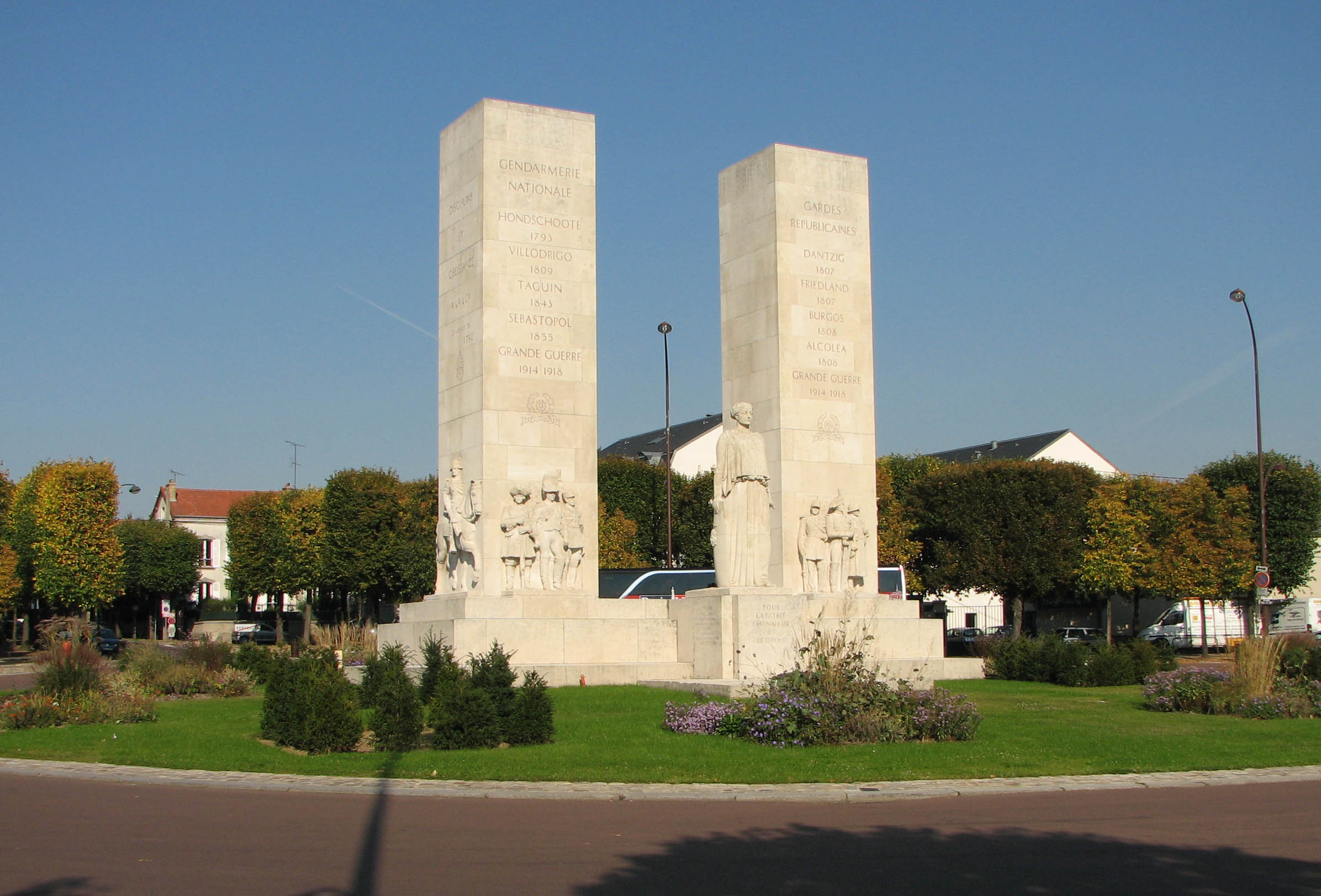 Place de la Loi, Gendarmerie war memorial, Versailles (France)